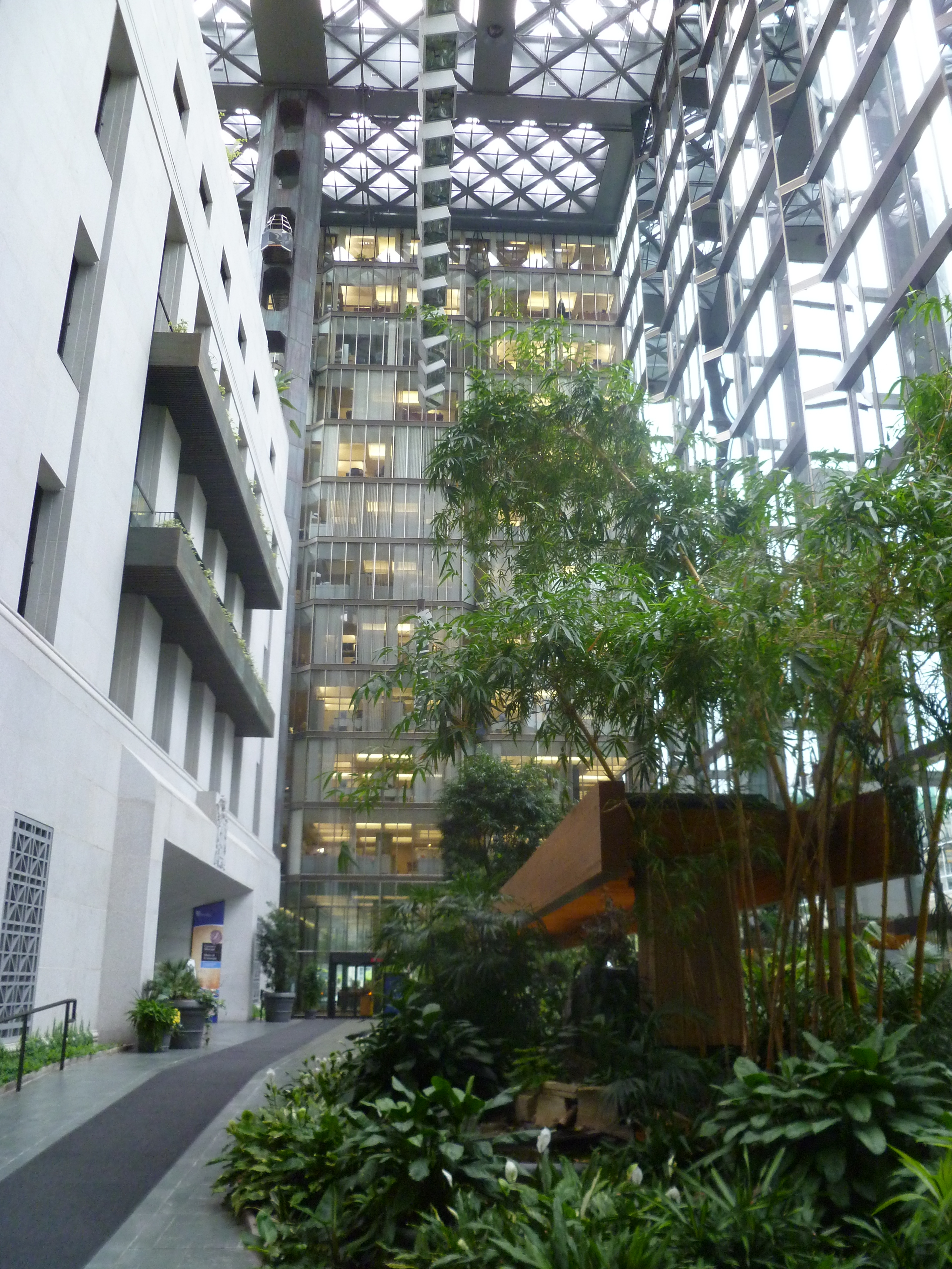 Inside the new glass addition to the Bank of Canada building. The entrance to the bank's currency museum is on the right side.